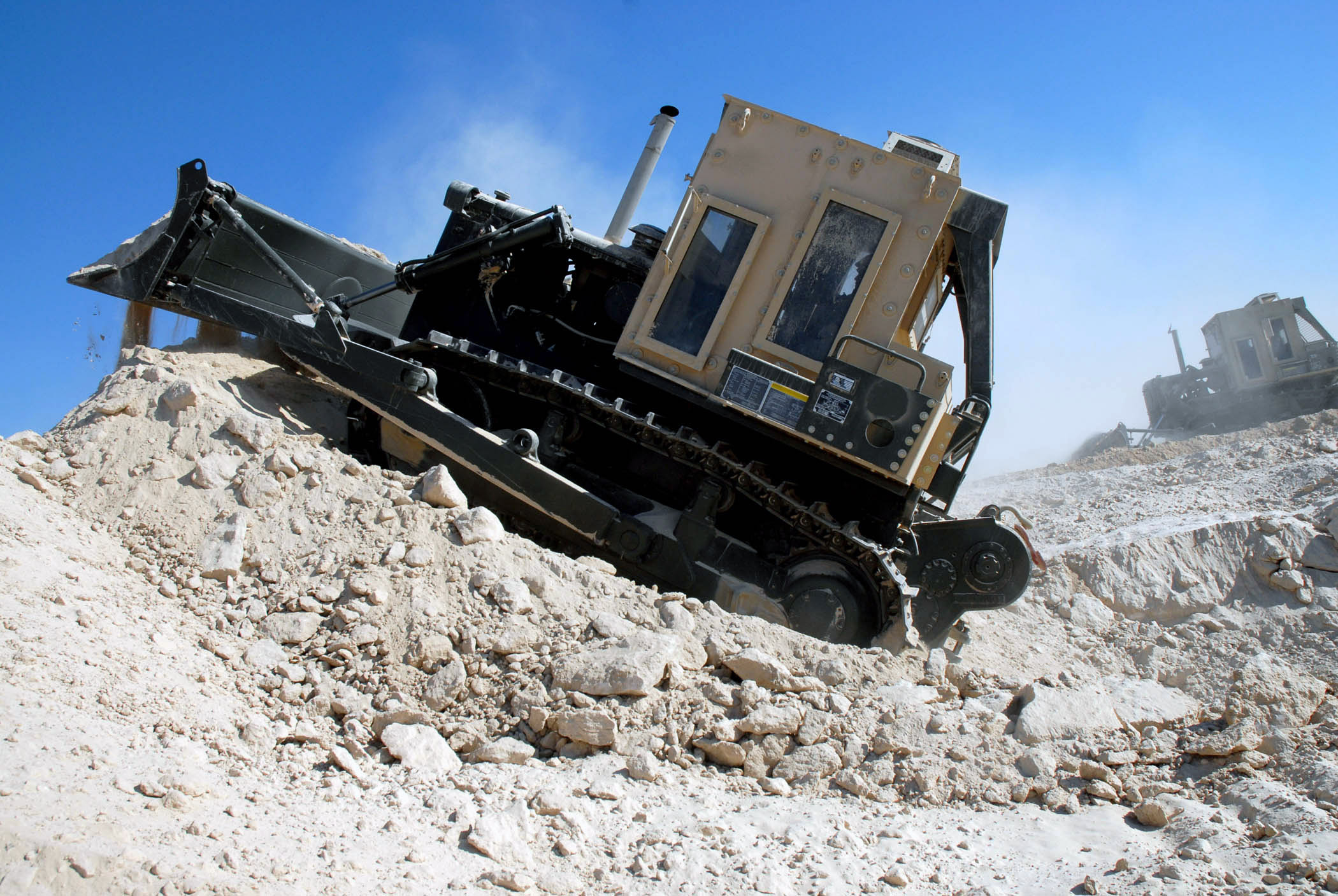 AL TAQADDUM, Iraq (Dec. 28, 2007) Seabees assigned to Naval Mobile Construction Battalion (NMCB) 1, use bulldozers to create a protective berm. NMCB-1 is deployed to several locations in the Middle East and Afghanistan providing responsive military construction support to U.S. military operations in the region. U.S. Navy photo by Mass Communication Specialist 2nd Class Ja'lon A. Rhinehart (Released)